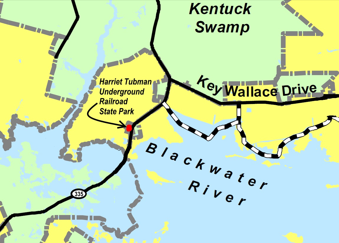 Map showing the Harriet Tubman Underground Railroad State Park (in red), a unit of the Maryland Park Service, within the Blackwater National Wildlife Refuge (in yellow) in the U.S. state of Maryland.